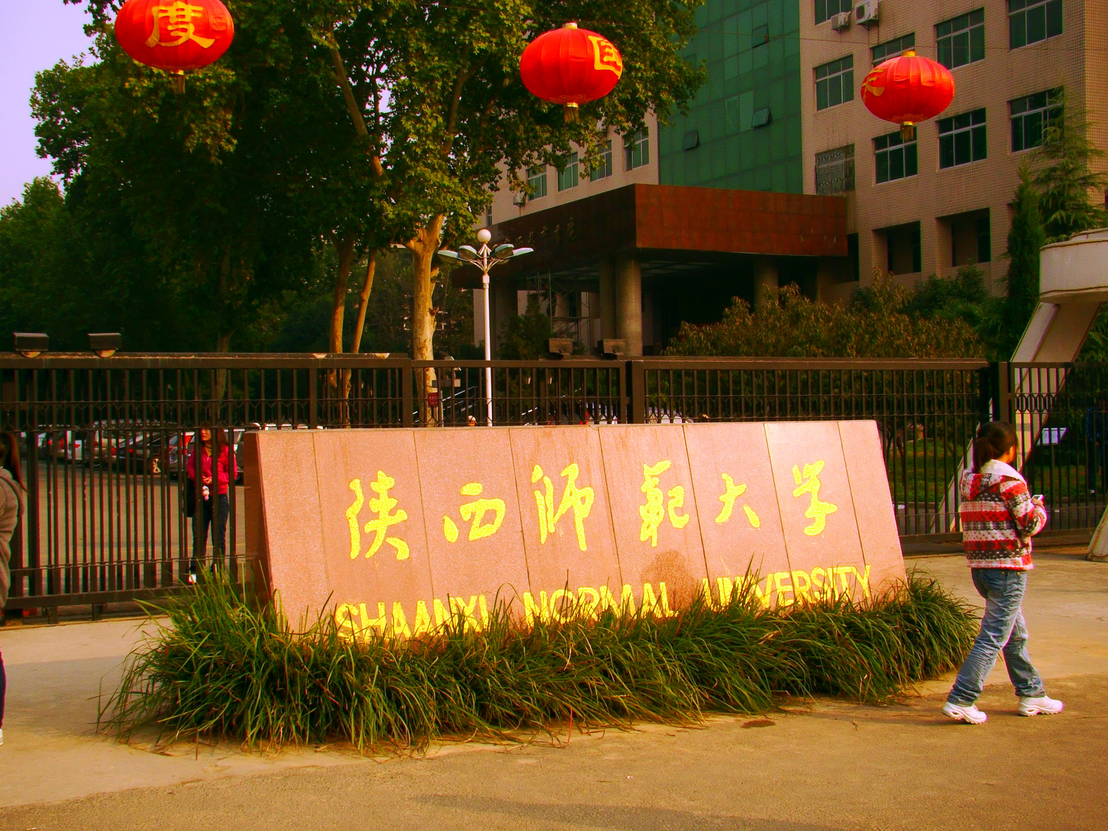 The Entrance of the Shaanxi Normal University (Xi'an City).